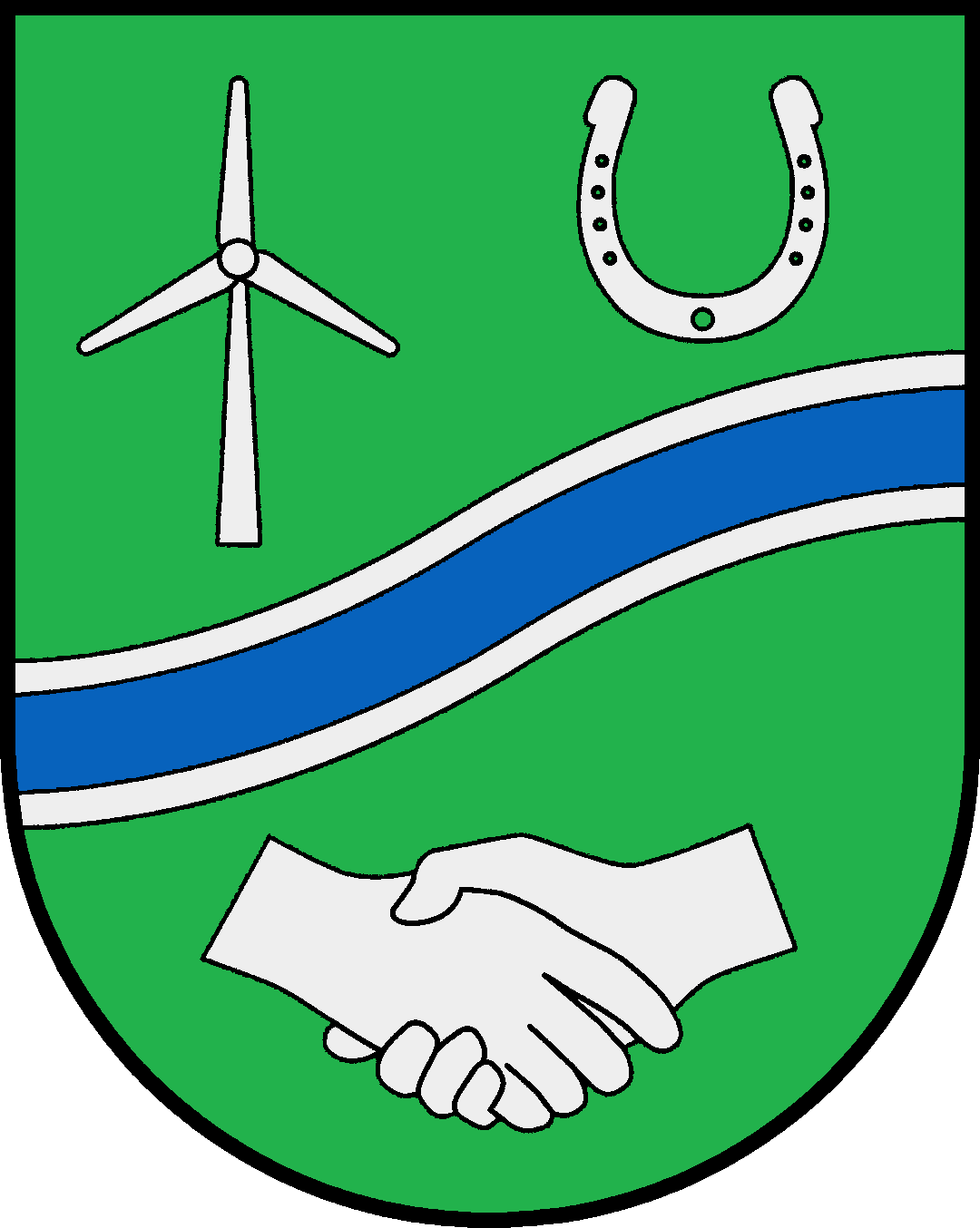 Coat of arms of the municipality Horstedt in Schleswig-Holstein, Germany.